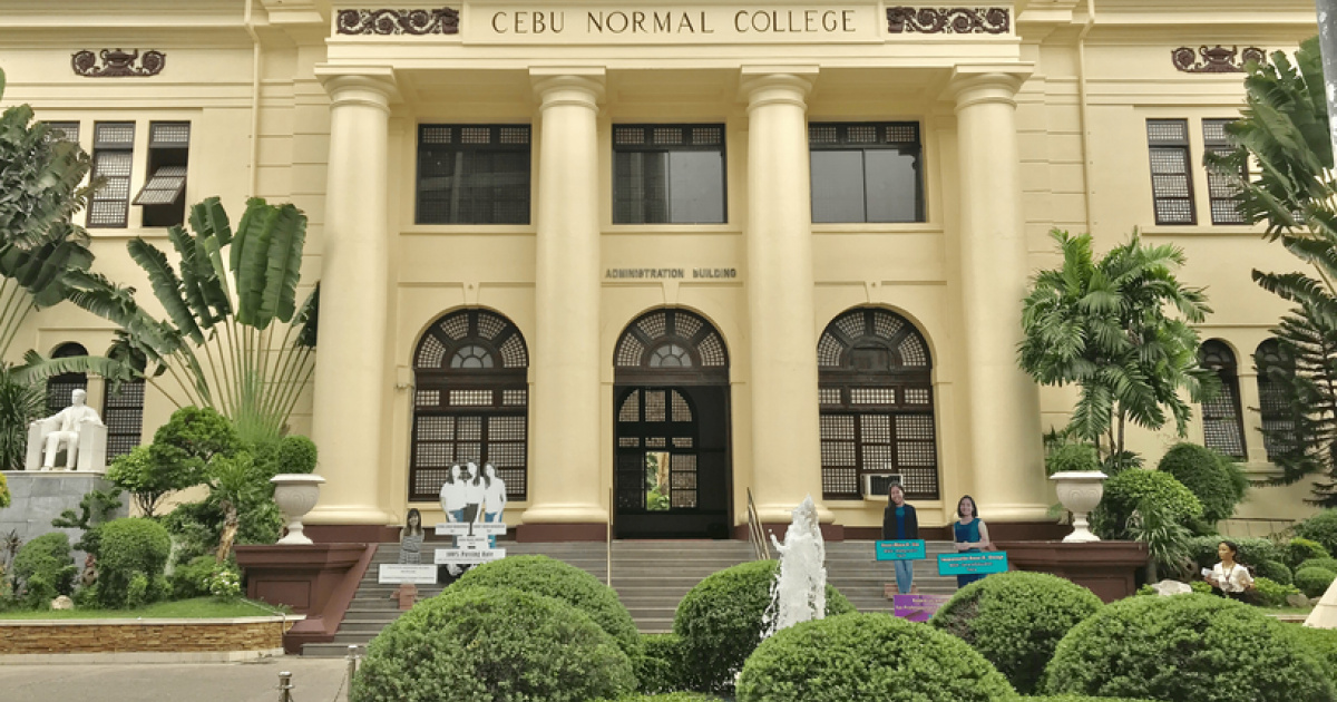 Facade of the oldest building in the campus.